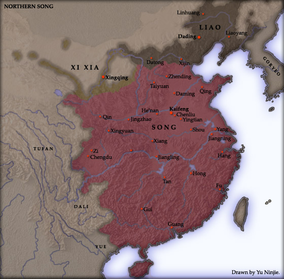 Northern Song, copy from